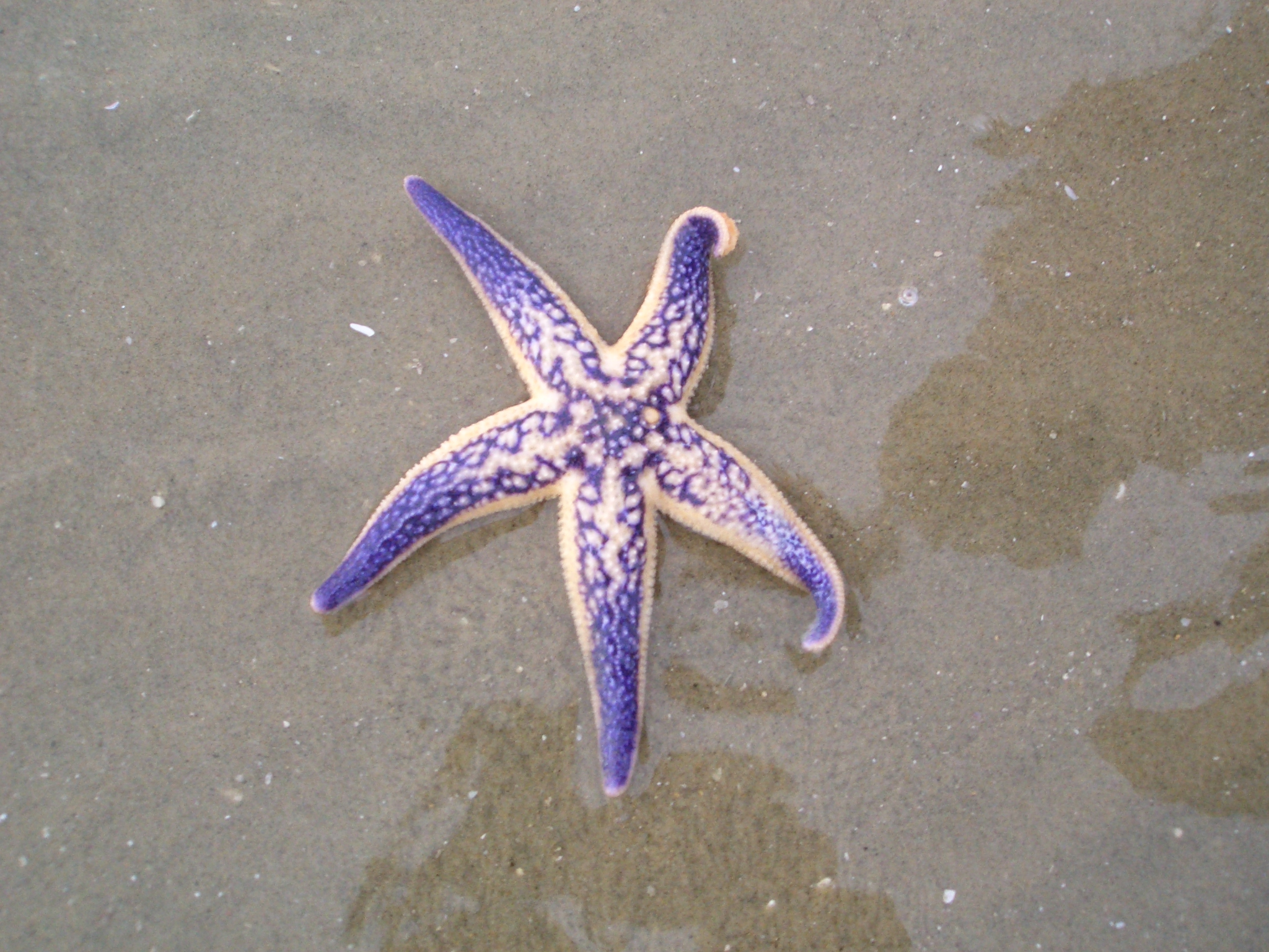 Sea star found by the sea south of Seoul, S.Korea one cold winter day. Species unknown.